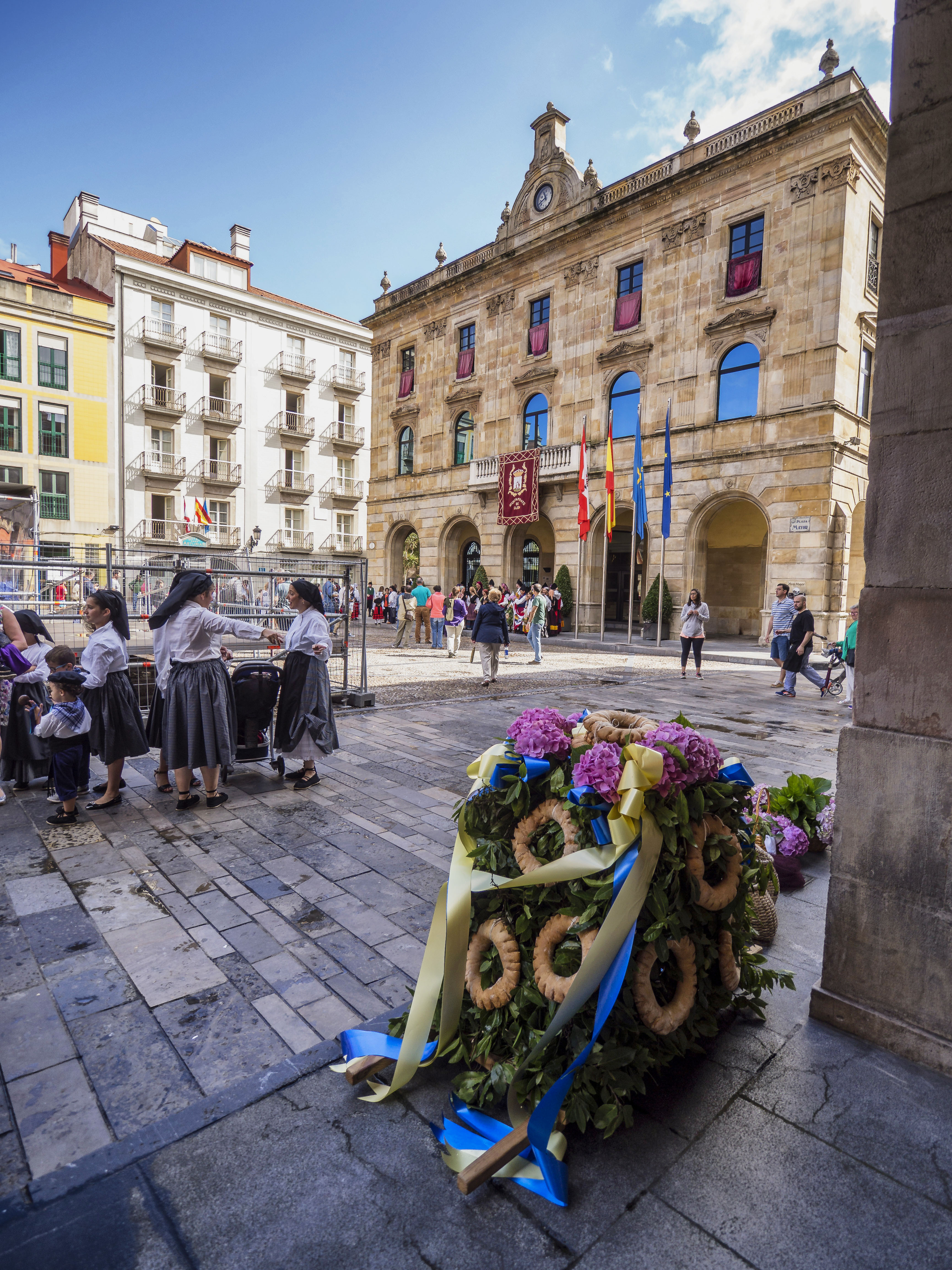 El primer domingo de Agosto se celebra en Gijon esta fiesta -Dia de Asturias en Gijon- en la que se realiza una jira desde la Plaza Mayor hasta el Cerro de Sta Catalina. Grupos de bailes folcloricos, bandas de gaitas y tambores, portadores del "ramu" de panes para su posterior subasta ( en asturiano "puxa") y multitud de gentes forman una serpiente multicolor que se dirige hasta el cerro para disfrutar de lo que aqui llamamos una "fiesta de prau". This is a photography of a Folklore festival in Spain (Wikidata id Q8771143).